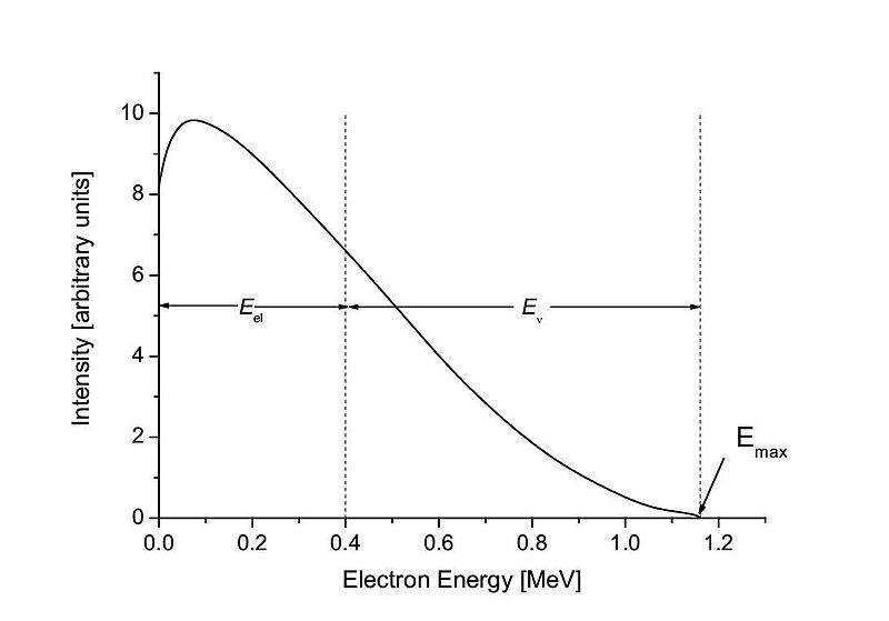 A beta spectrum, showing a typical division of energy between electron and neutrino